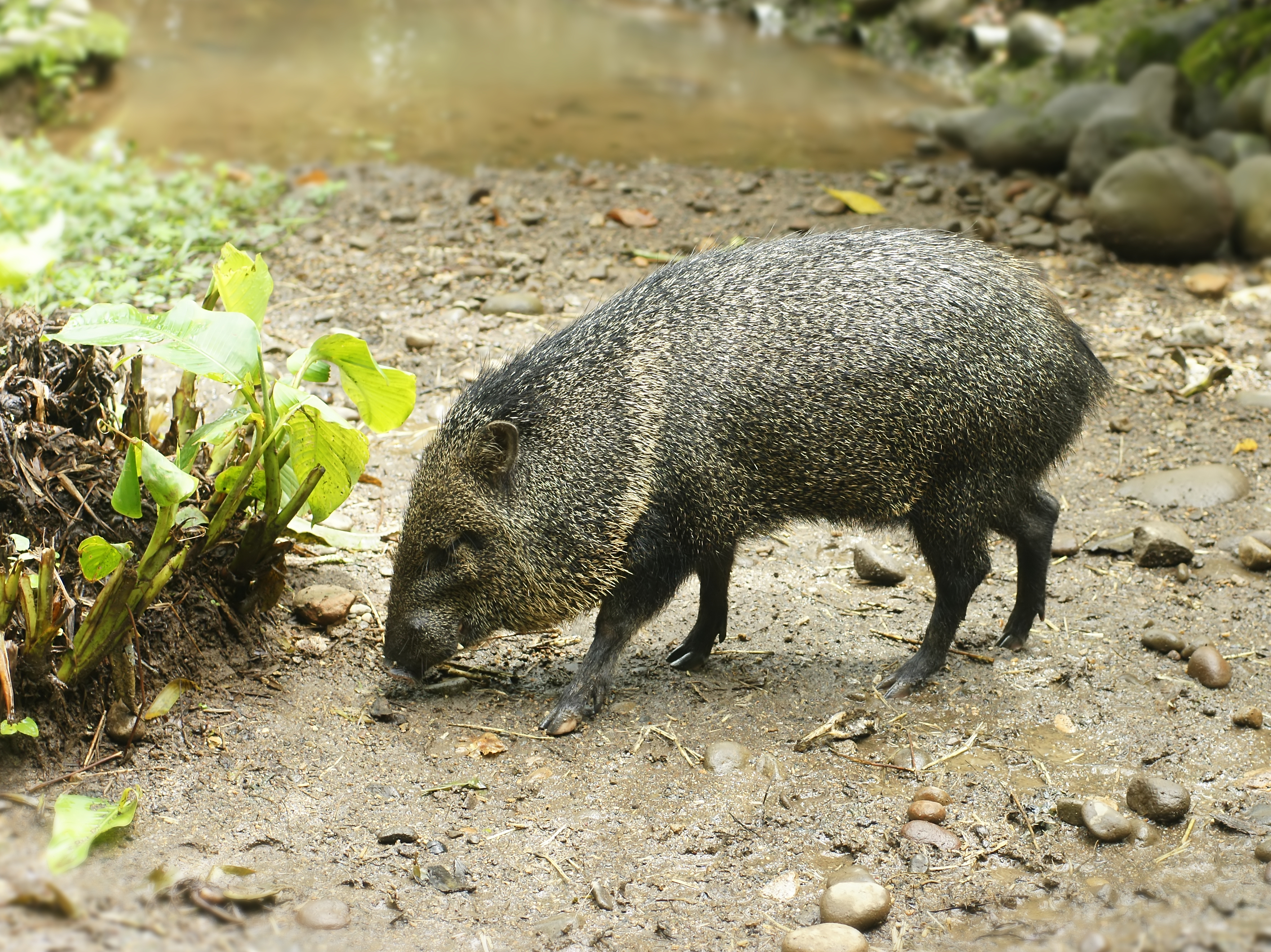 Collared Peccary near Las Horquetas, Costa Rica.